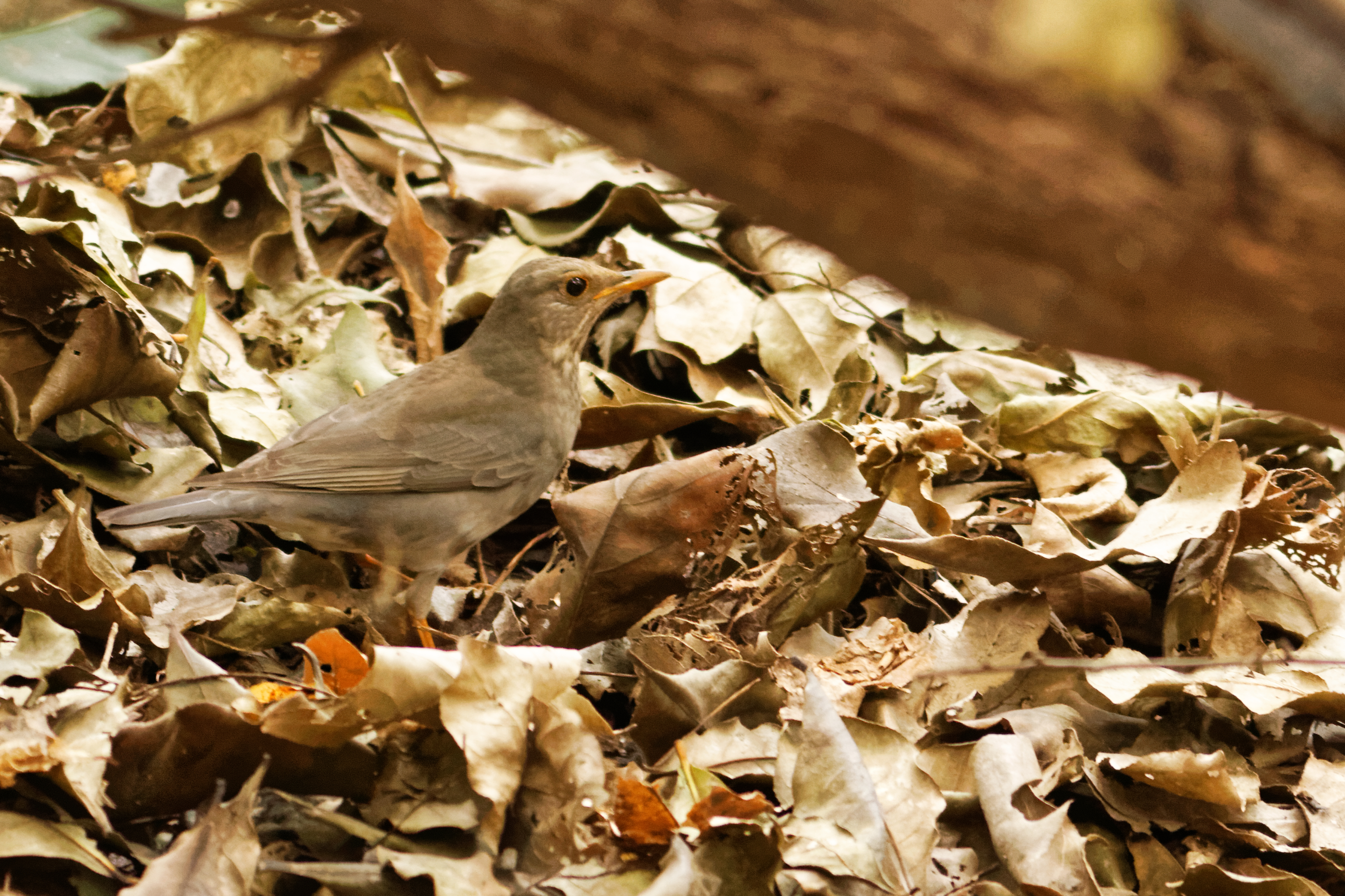 Tickell's Thrush Turdus unicolor, female, at Nawabganj Bird sanctuary, Uttar Pradesh, India